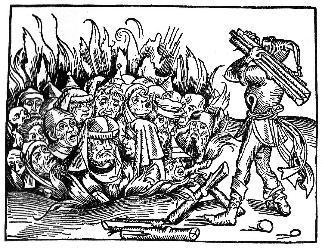 Massacre of Jews woodcut, 1493